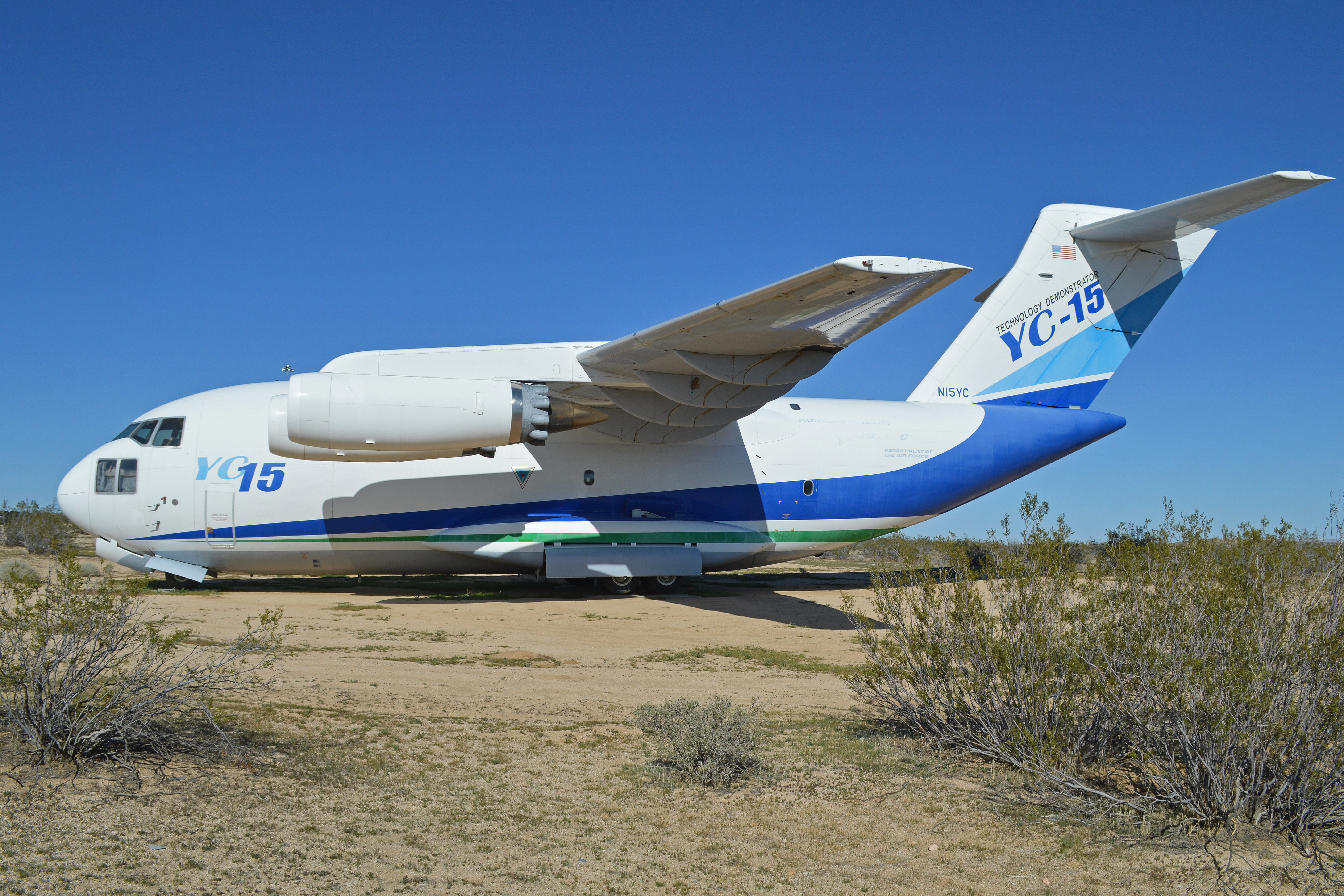 c/n 50000. US military serial 72-1875. The YC-15 was designed to fly against the Boeing YC-14 in the AMST (Advanced Medium STOL Transport) competition, which was intended to replace the USAF C-130 fleet. Neither was eventually ordered, although the C-17 owes much to its YC-15 predecessor. This was the first of the two aircraft built. When the program was complete the aircraft was retired to AMARC, but in 1981 it was moved to the Pima Air Museum, along with one of the YC-14s. In 1996 it was returned to flight status to support the C-17 program. On 11th July 1998 the No1 engine suffered a massive failure during flight and the aircraft made an emergency landing at Palmdale. It sat there for ten years before being moved, by road, to Edwards AFB. Four years later, the second aircraft (72-1876) was scrapped on Celebrity Row at AMARG, making this the only surviving example. Part of the AFFTC Museum, it on display at the West Gate to Edwards AFB, CA, USA. 29-2-2016